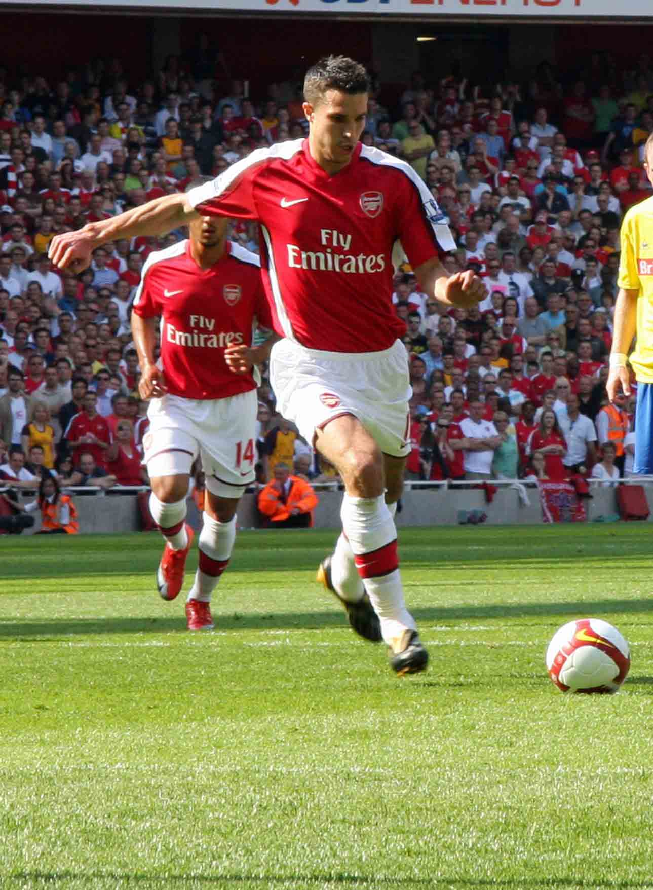 Robin van Persie of Arsenal This file has been extracted from another file: Arsenal v Stoke City FC - Robin Van Persie penalty.jpg